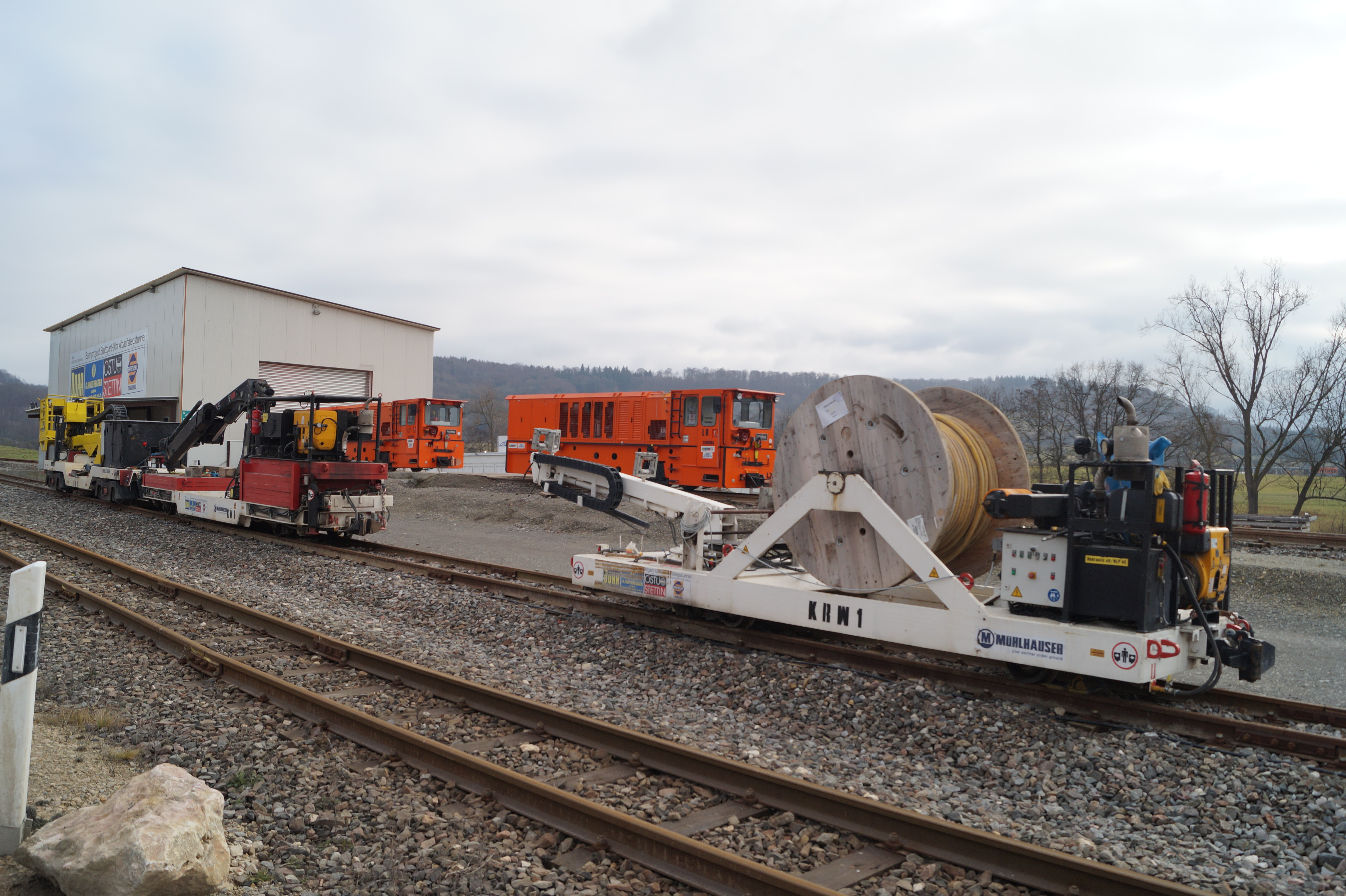 Mühlhäuser rolling stock at the construction site of the western portal of the Bossler Tunnel